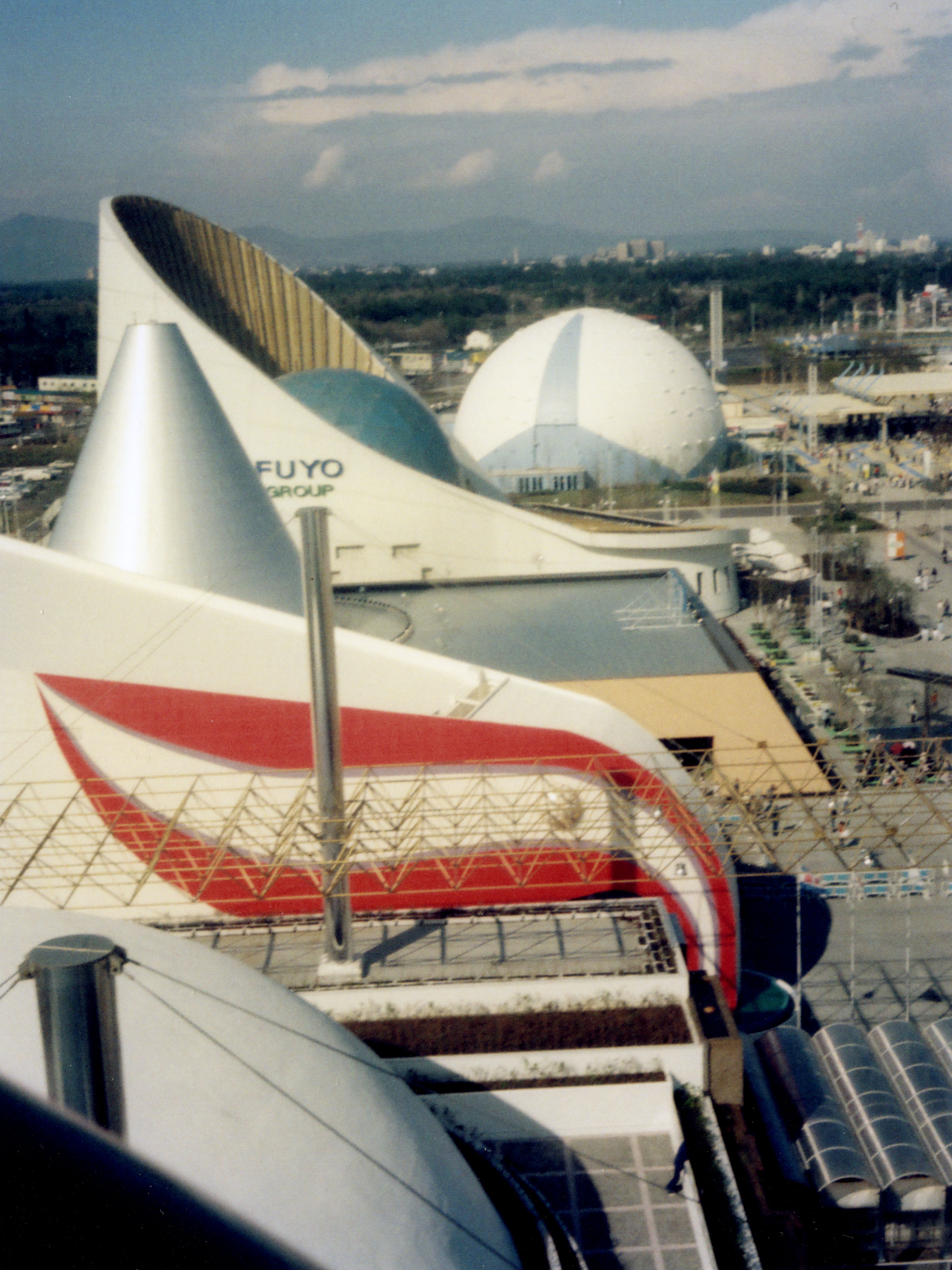 The International Exposition,Tsukuba,Japan,1985